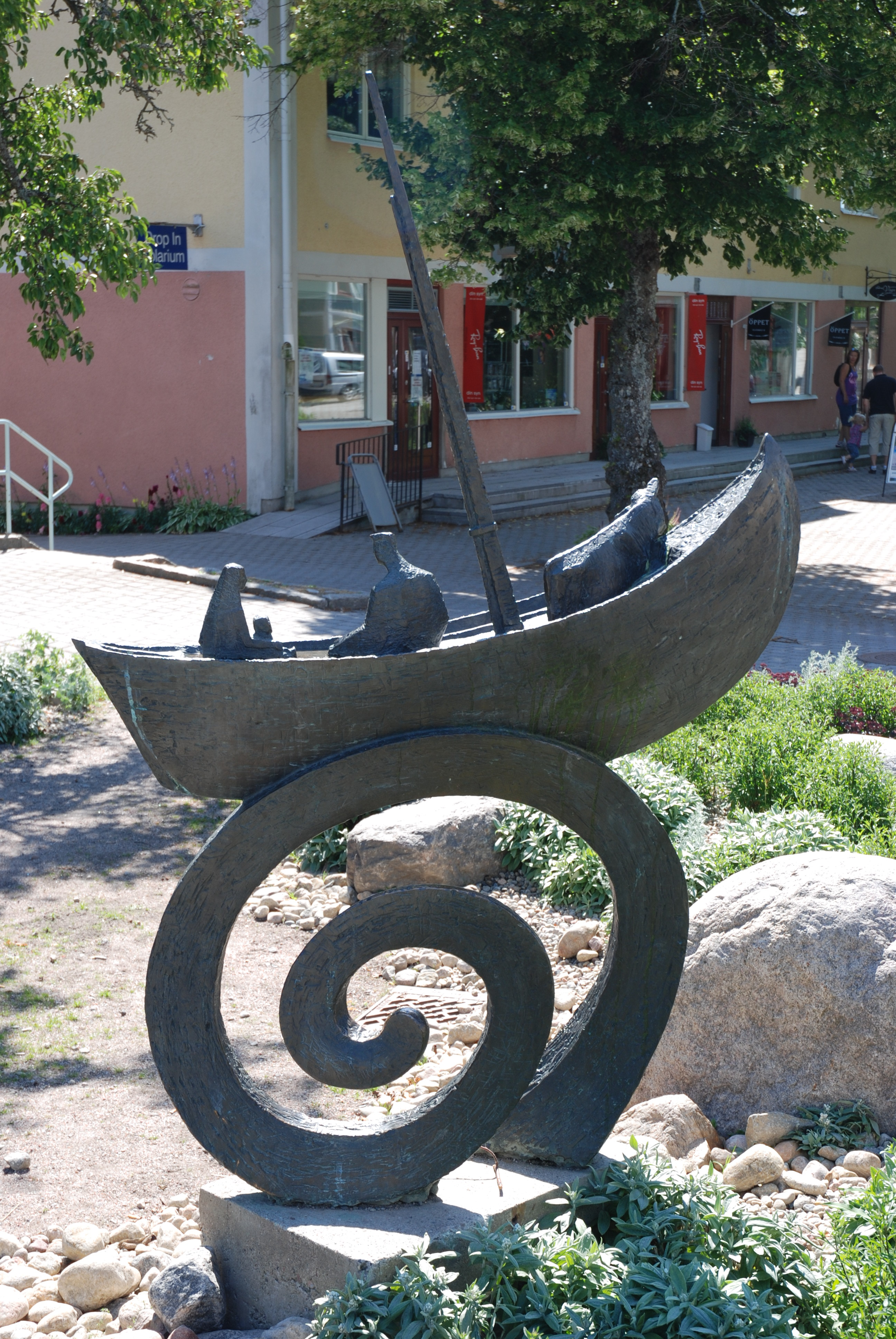 Lena Lervik´s Skärborgare, bronze, 1991, at Skoltorget in Trosa, Sweden